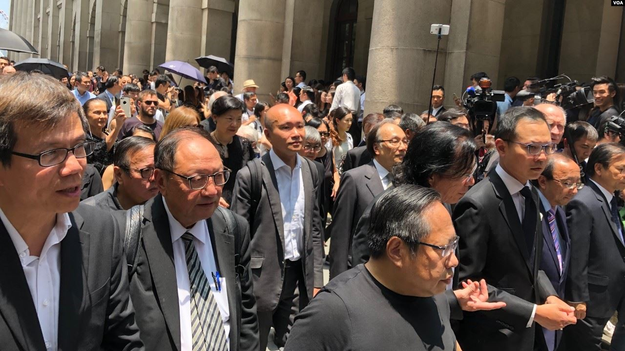 Legal professionals marching in black on 7 August 2019 against the prosecution by the Secretary of Justice.